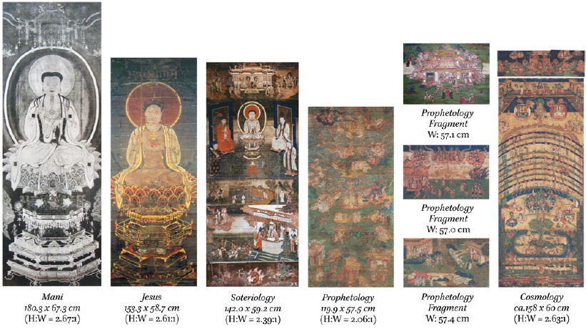 Relative proportions of Chinese Manichaean hanging scrolls (silk paintings).